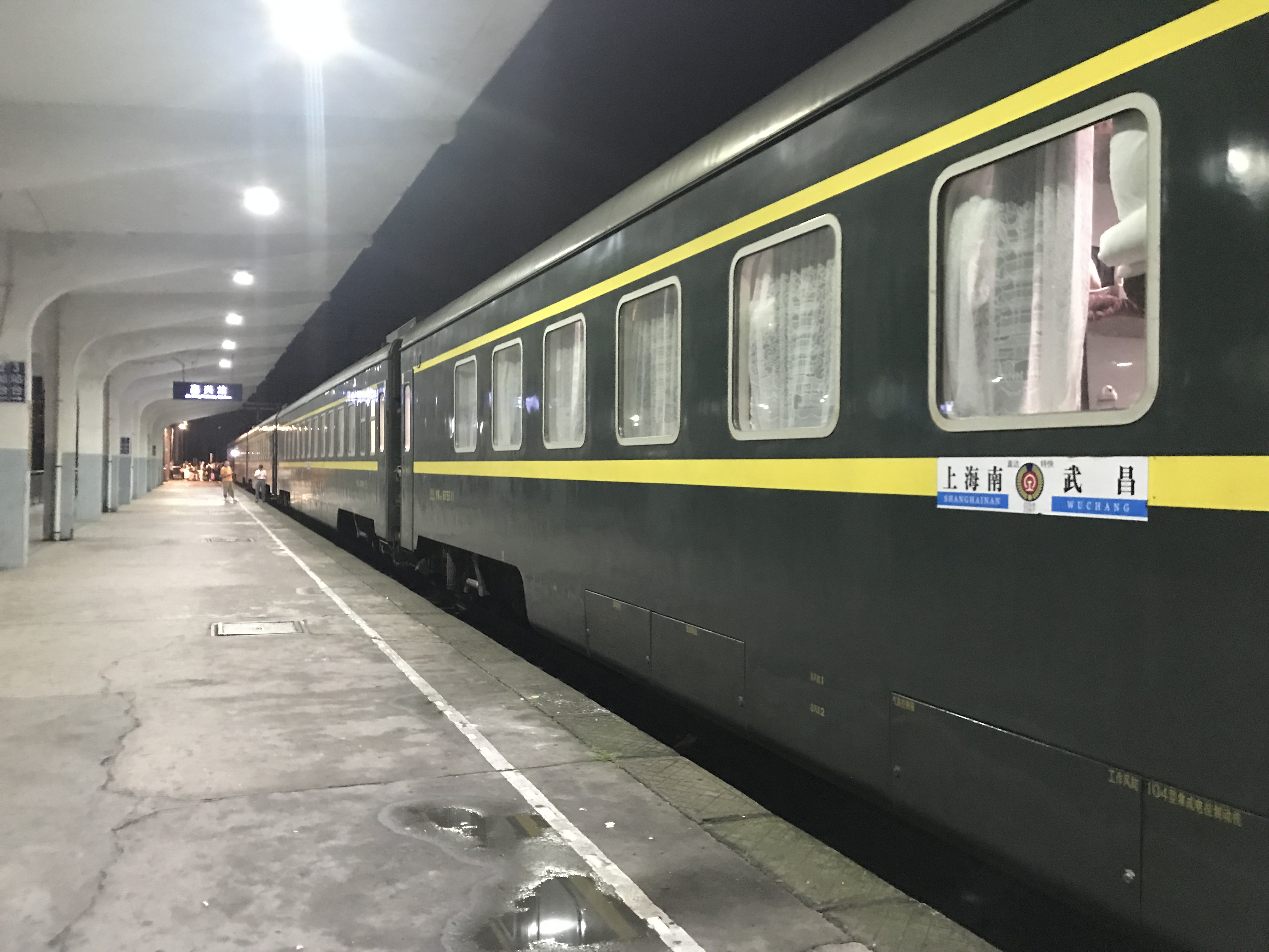 Finally have one that its infoboard matches the window.